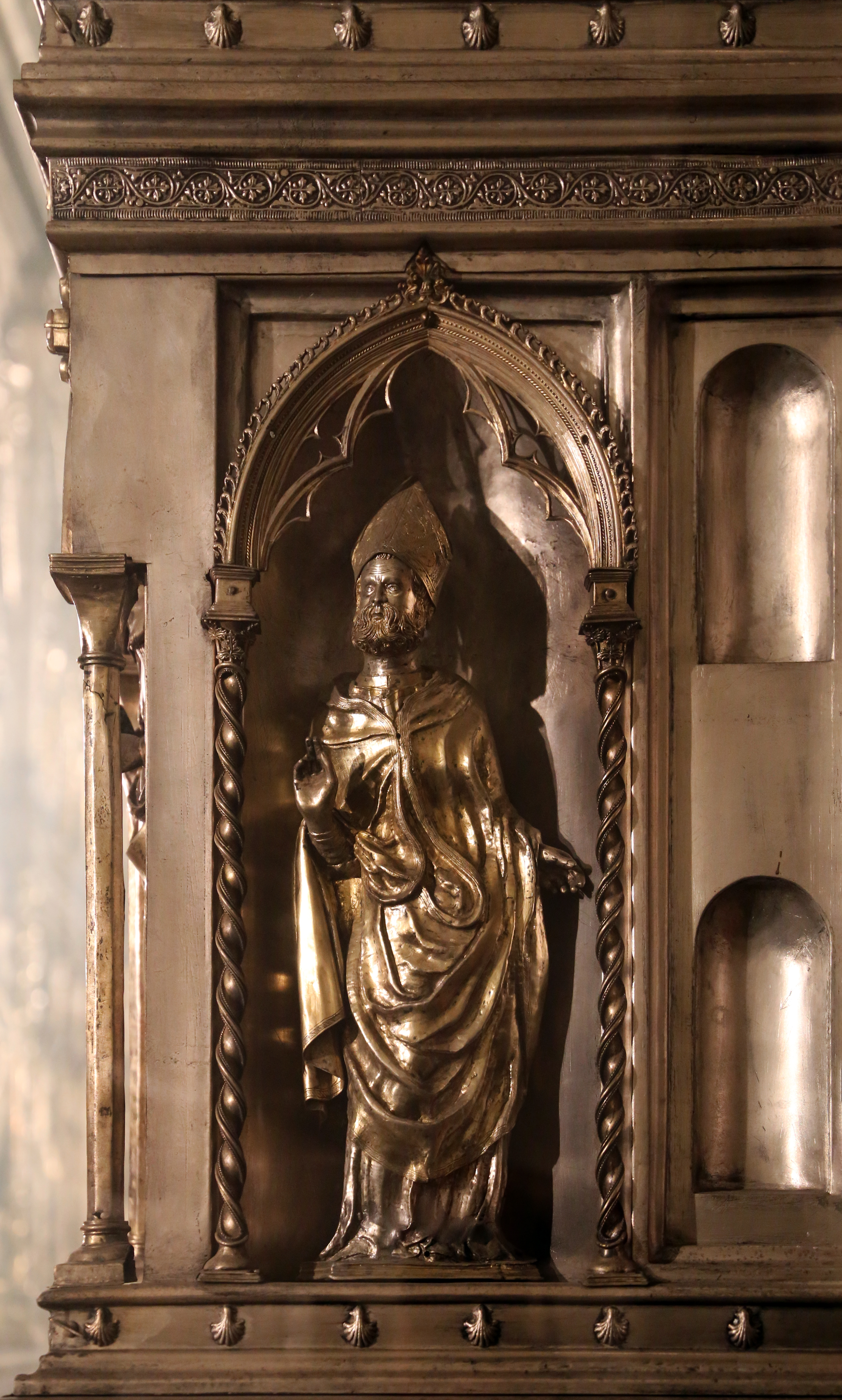 Silver Altar of Saint James